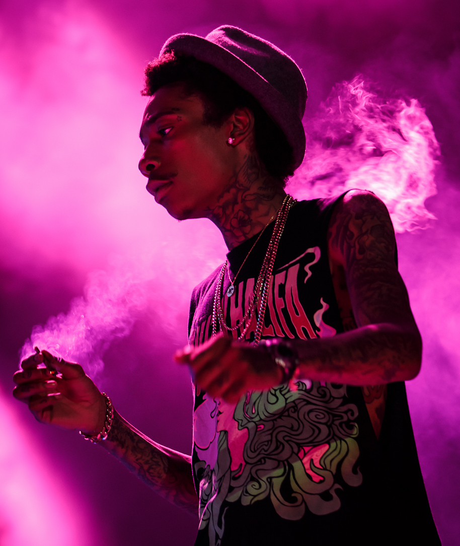 Wiz Khalifa in Under The Influence Tour 2012 in Toronto.